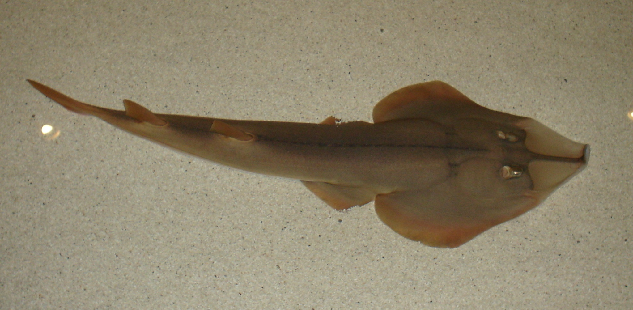 Shovelnose guitarfish (Rhinobatos productus)